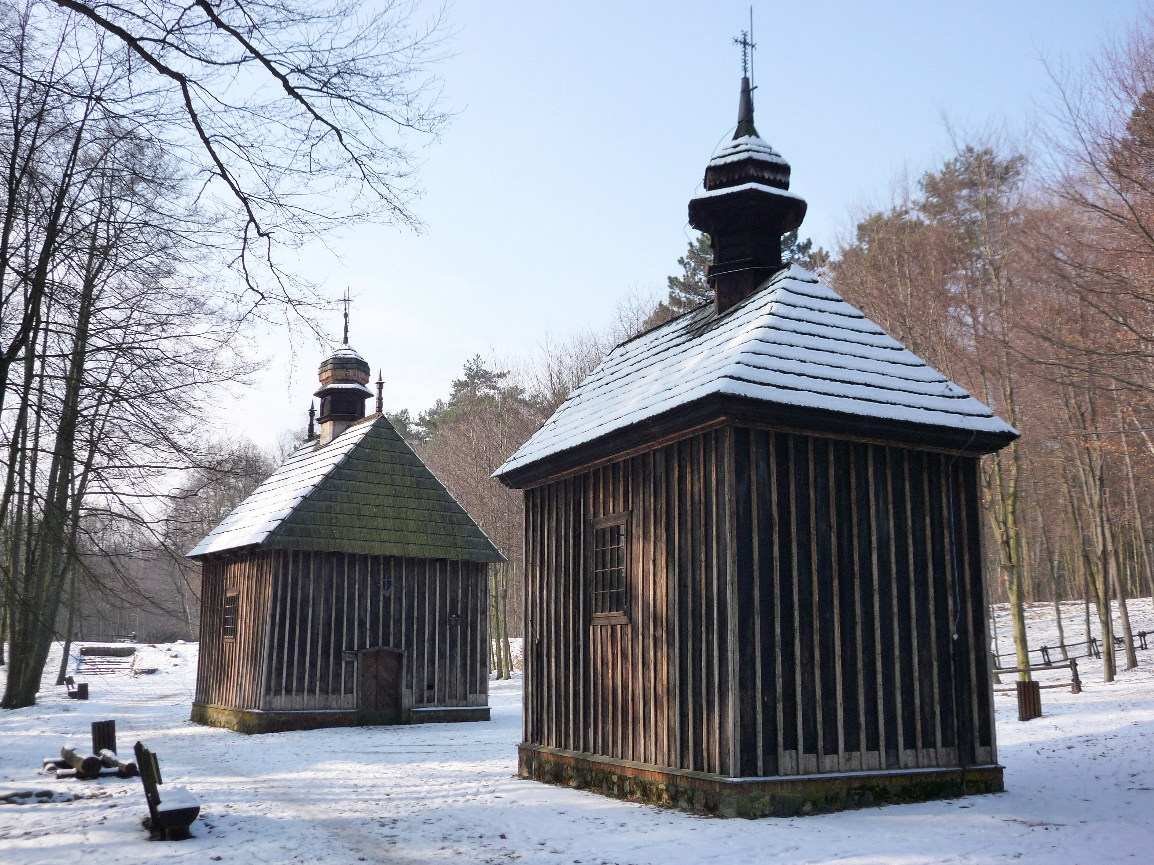 St. Anthony's chapel and St. Roch and St. Sebastian's chapel (Łódź-Łagiewniki, Poland)